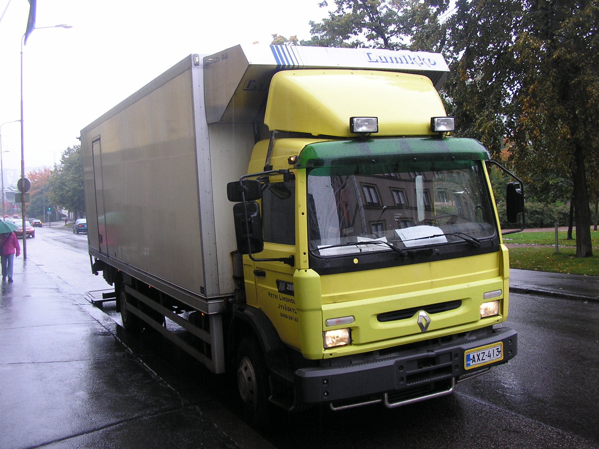 Renault truck in Jyväskylä, Finland